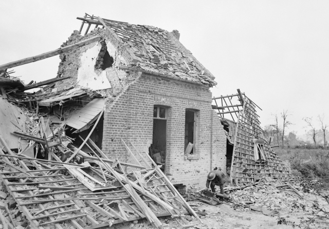 A damaged house in the village of Hamel, Nord, France on 4 July 1918 following the attack by Australian and American forces. A German machine-gun can be seen at the entrance.